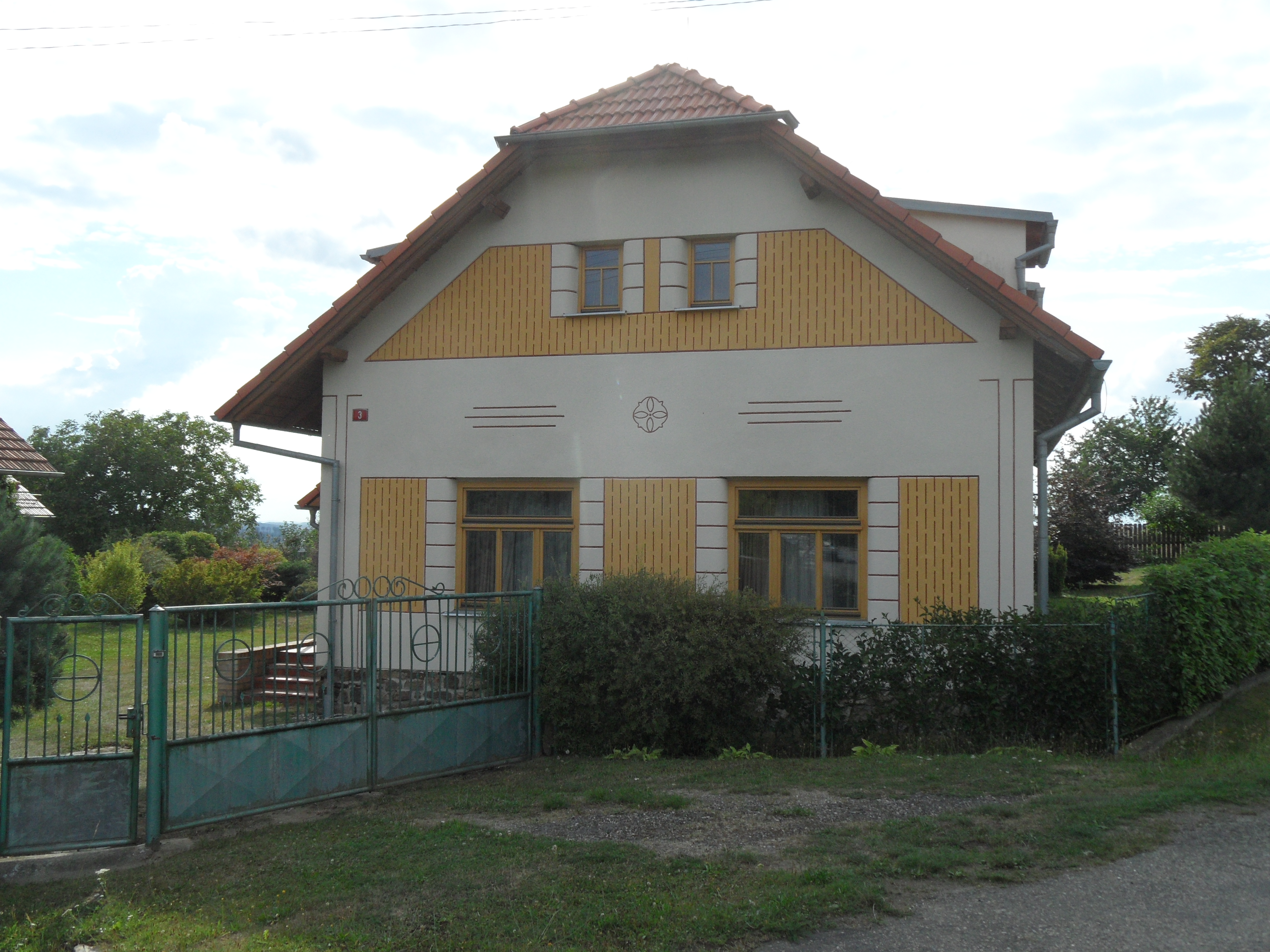 Měchonice A. House, Kutná Hora District, the Czech Republic.